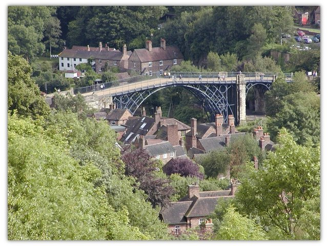 The Iron Bridge viewed from the Rotunda The Rotunda is a viewpoint at the end of a sandstone cliff/promontory that separates Ironbridge from Coalbrookdale.